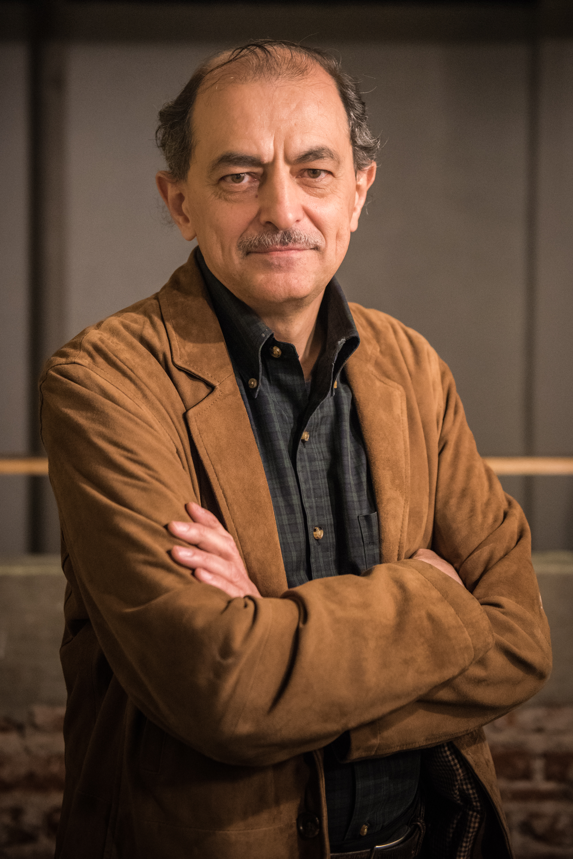 The Wikipedia project turned fifteen years old and, in Mexico, the people from the Wikimedia foundation celebrated with a series of conferences and a party.